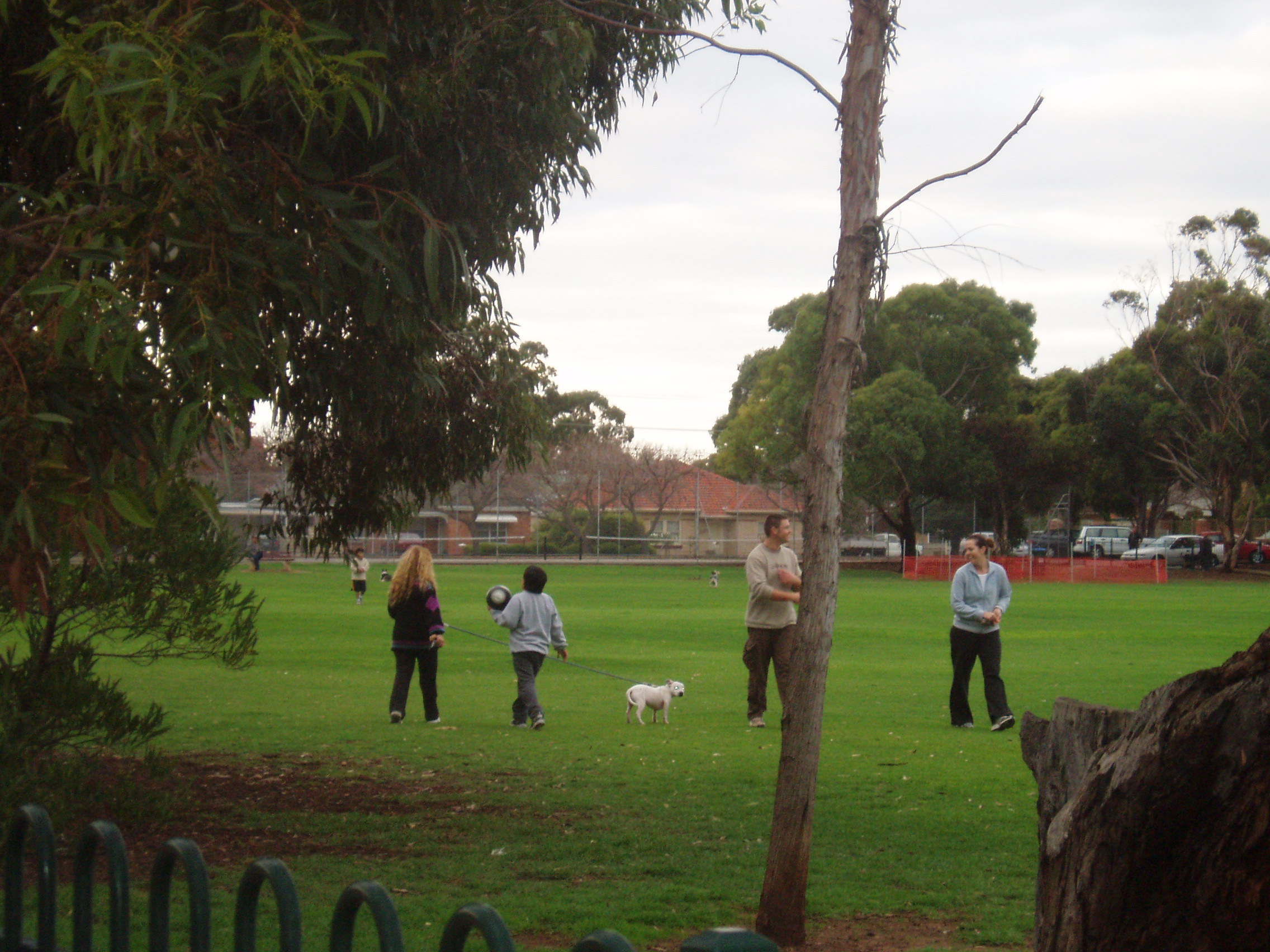 Hazelmere Reserve, Glengowrie, South Australia. Original photography by Donama, May 2006.